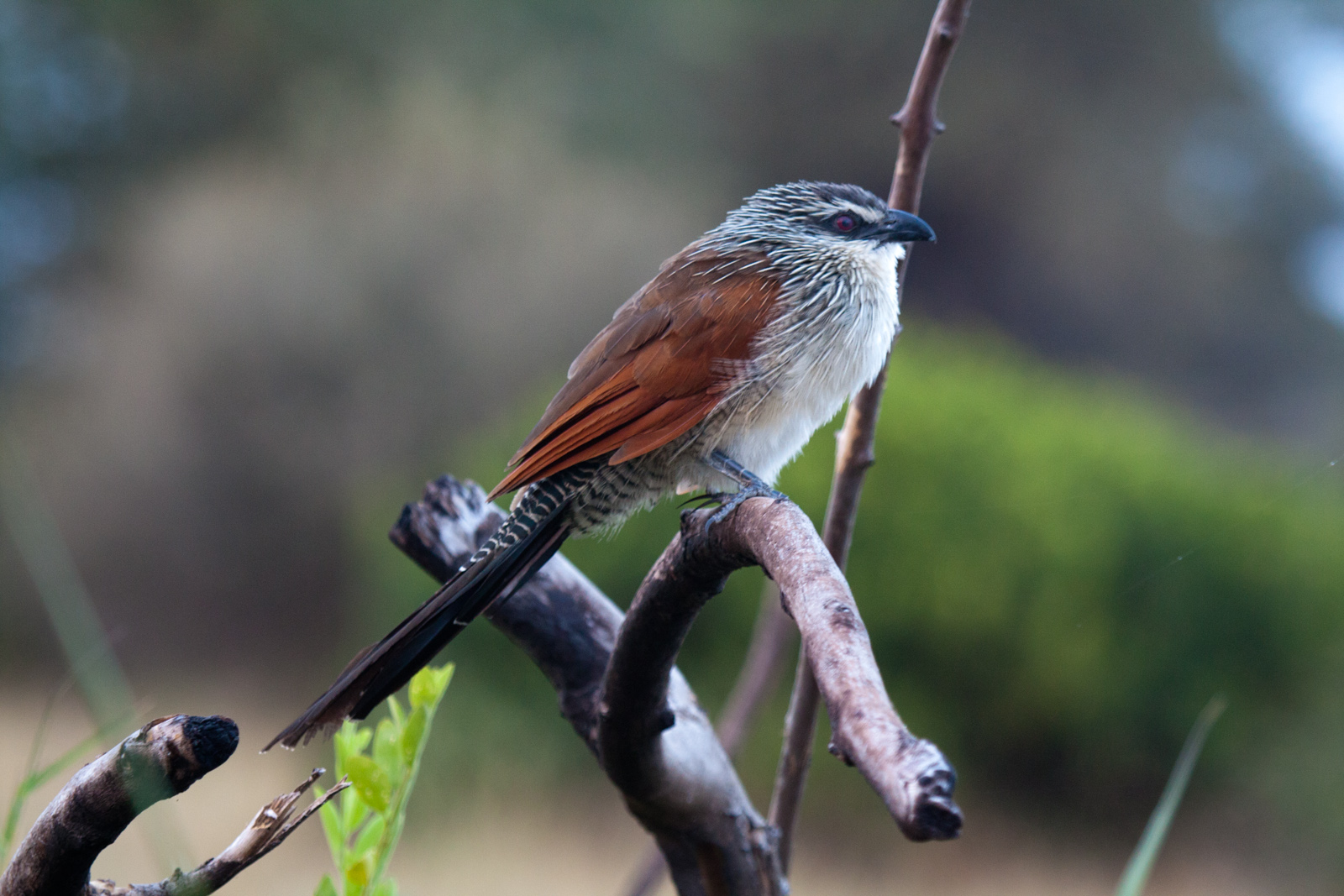 An adult White-browed Coucal in Tanzania.